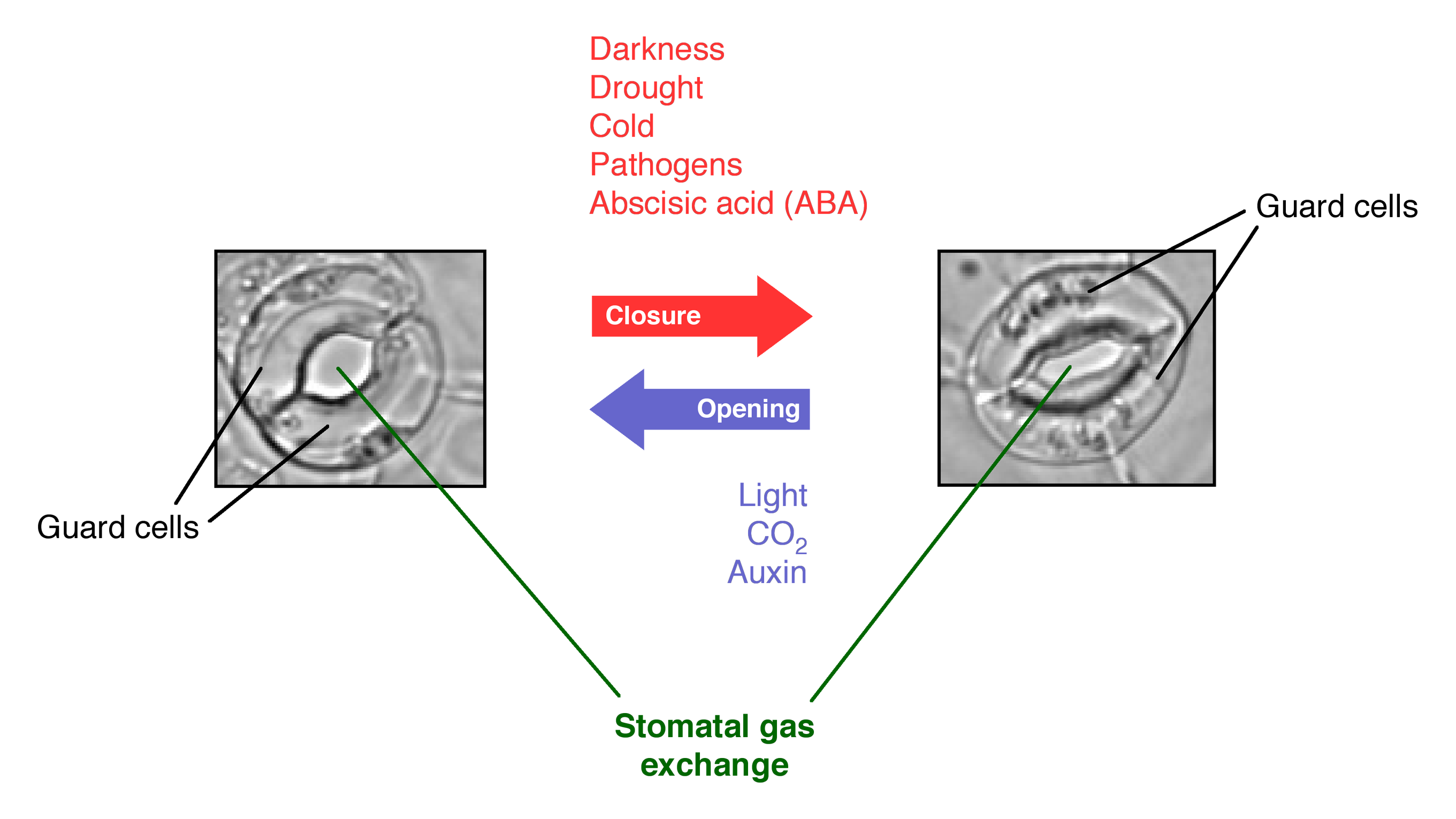 Overview on the input signals which are integrated by guard cells to control stomatal aperture in plants.